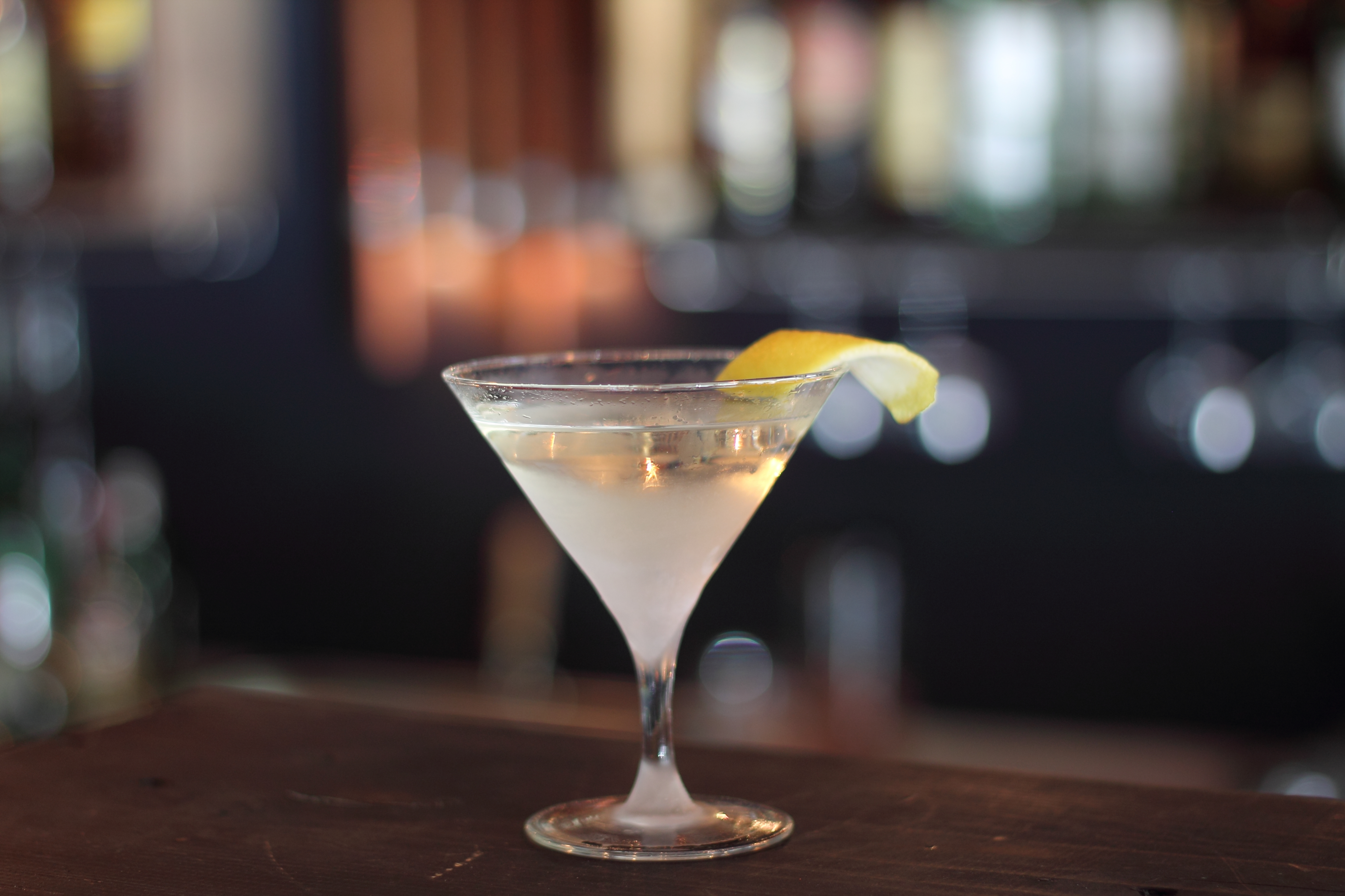 Martini cocktail in a chilled glas.